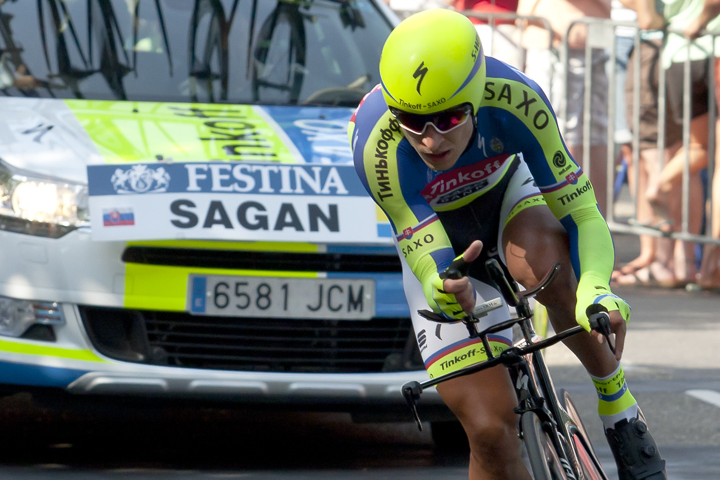 A very succesfull Slovak sprinter. He finished the 2014 Tour in the green jersey. Contre la Montre (time trial), the first stage of the Tour de France 2015. 18,3 km's in Utrecht, Netherlands.